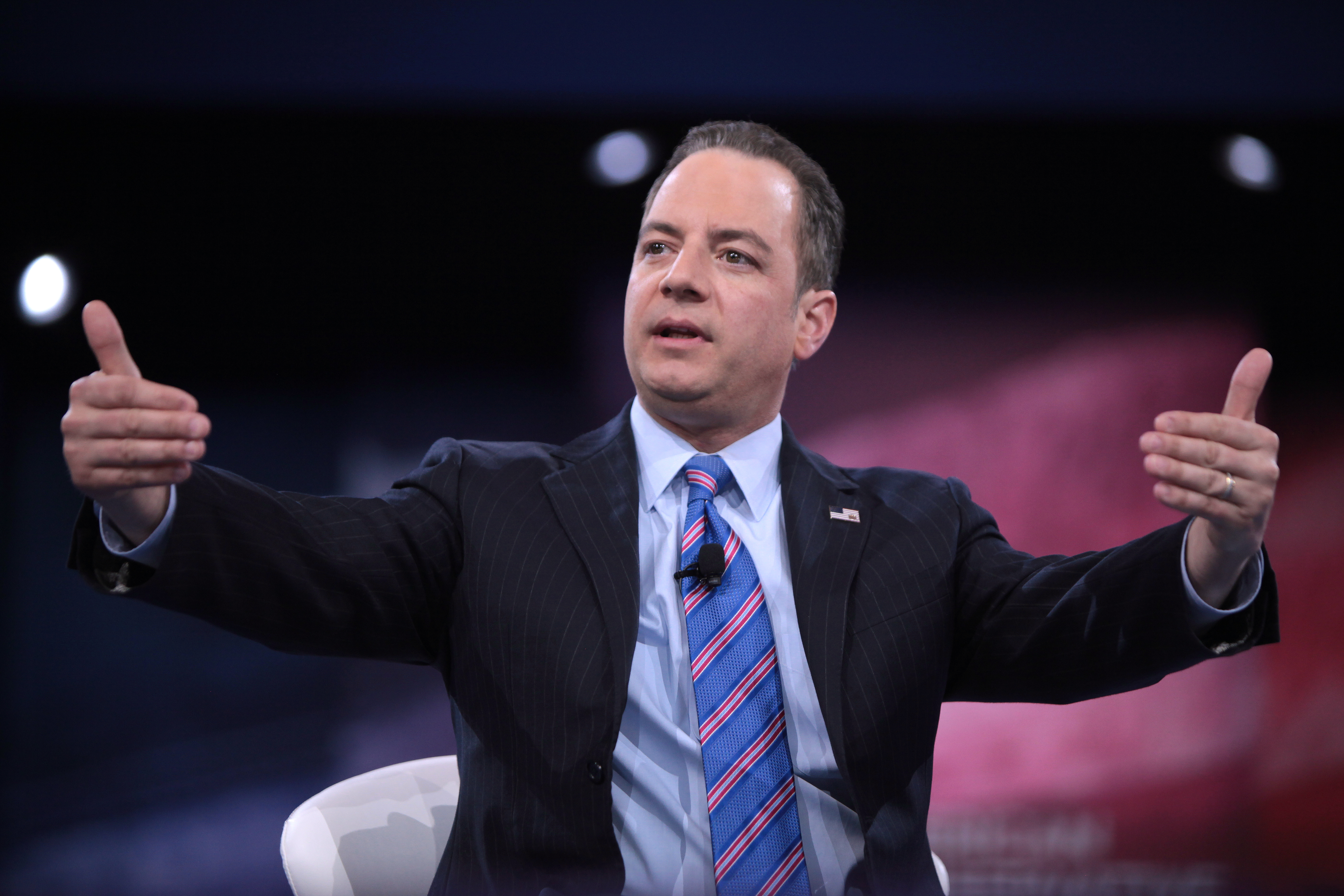 Reince Priebus speaking at CPAC 2016 in Washington, D.C.